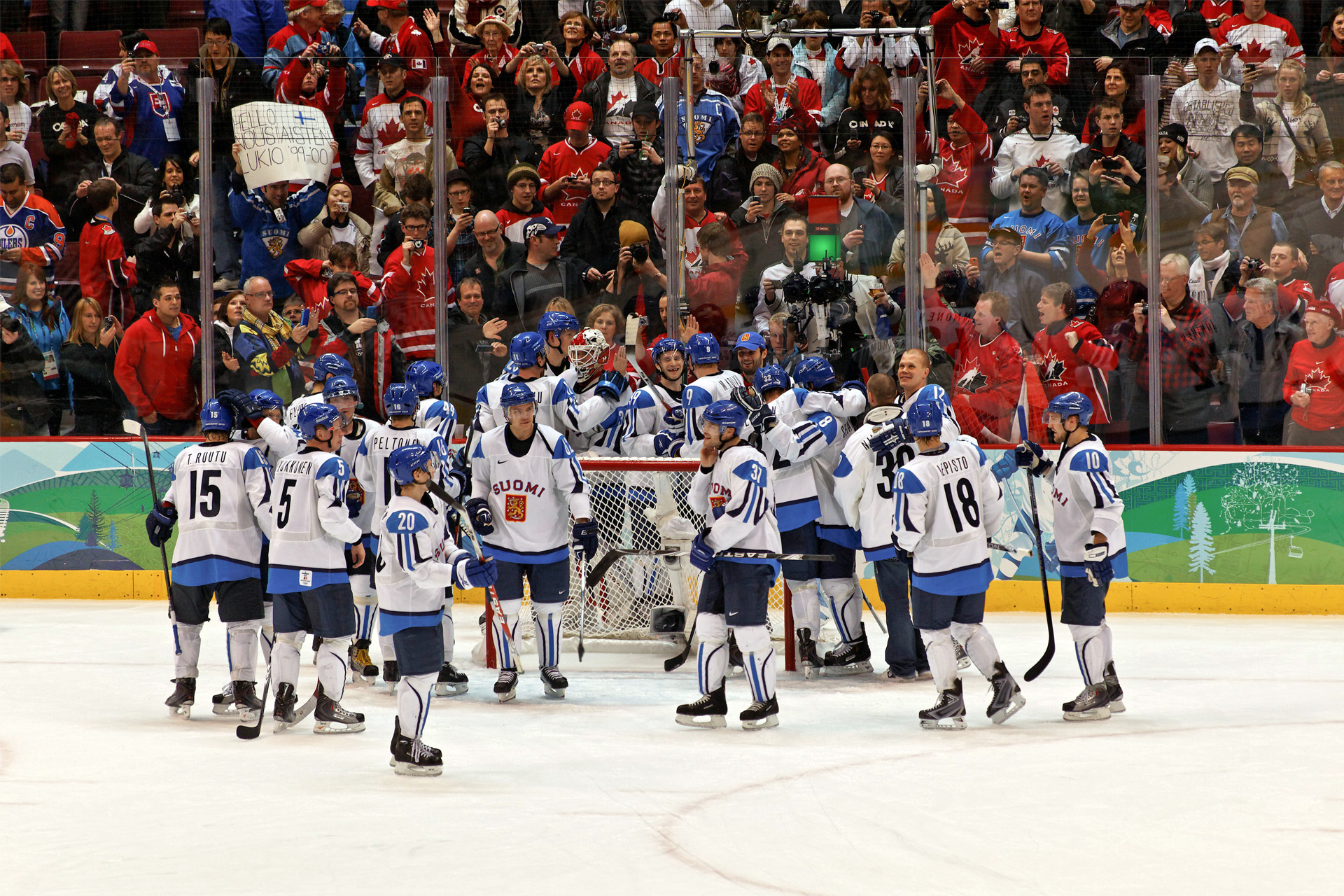 Finland ice hockey team celebrates winning the bronze medal over Slovakia at the 2010 Winter Olympics